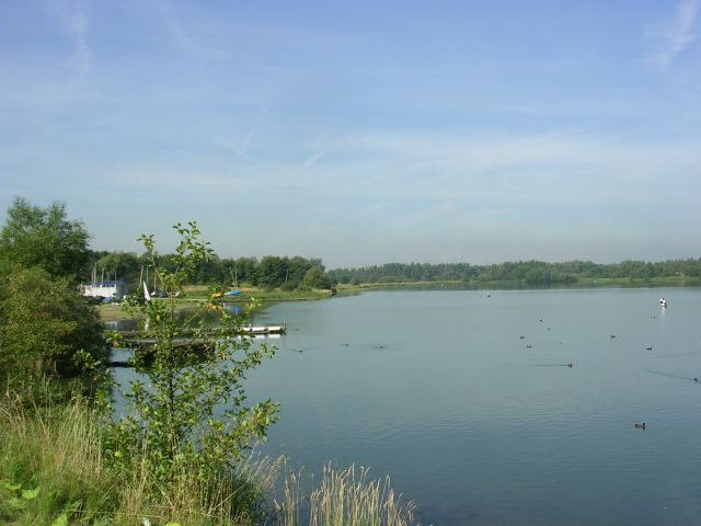 Pennington Flash. Looking roughly northwest across Pennington Flash near Leigh. A flash is a type of lake created through mining subsidence. SJ63429875